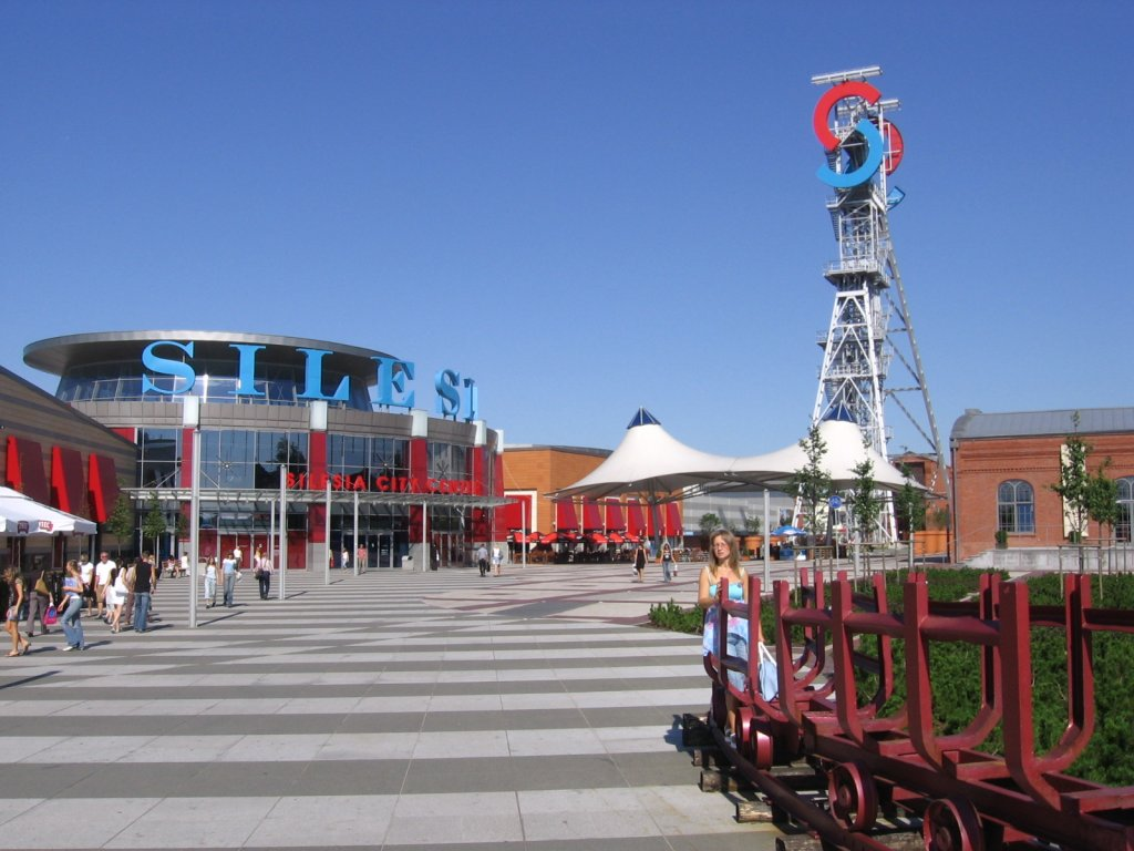 Katowickie centrum handlowe Silesia City Center